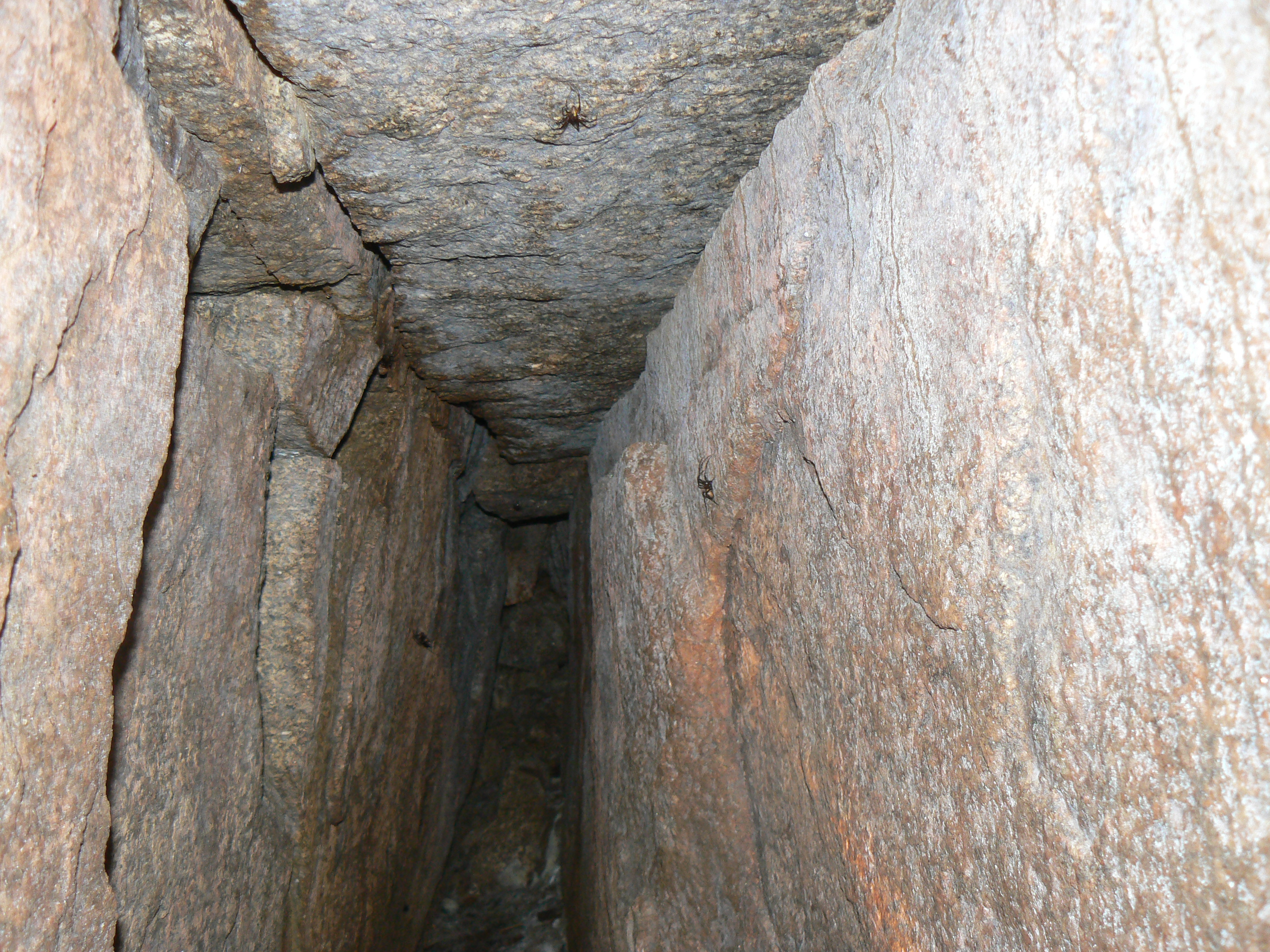 Photo from one of the caves at Trollegater in Kinda, Sweden.